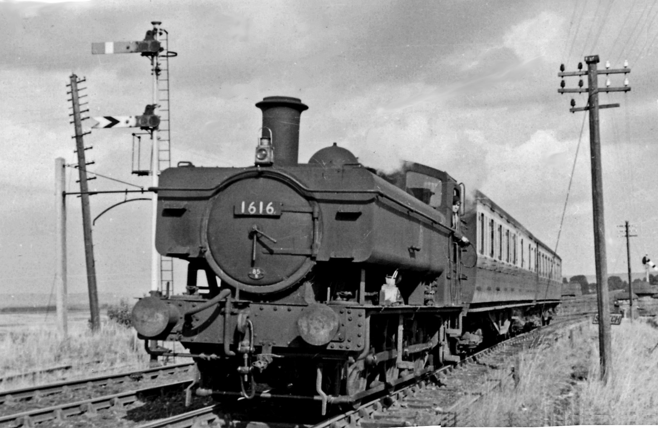 Local train from Berkeley Road to Lydney at Severn Bridge station. View east, towards the Severn Bridge, Sharpness and Berkeley Road: ex-GW&Midland (Severn & Wye) Joint line. The locomotive is 'modern' GW '1600' class 0-6-0T No. 1616 (built 12/49, withdrawn 10/59!).